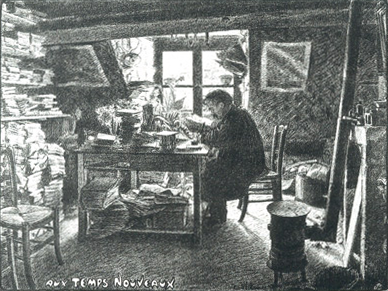 Picture depicting Jean Grave in the office of Les Temps Nouveaux 140 rue Mouffetard by Jules Hénault (1859-1909)